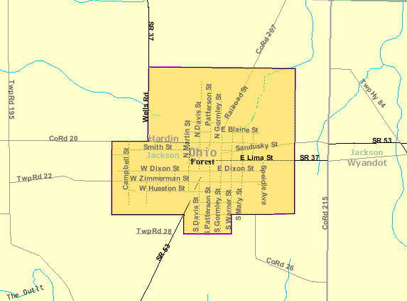 Map of Forest, a village in Hardin County, Ohio, United States, with its boundaries at the time of the 2000 census.